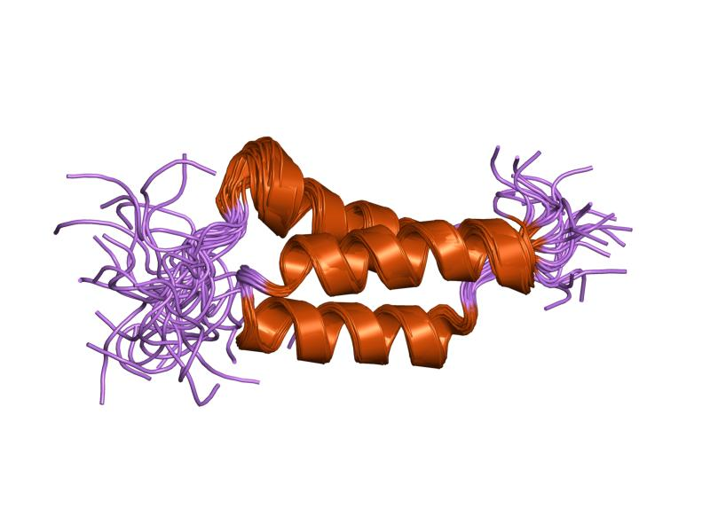 Cartoon representation of the molecular structure of protein registered with 1ss1 code.